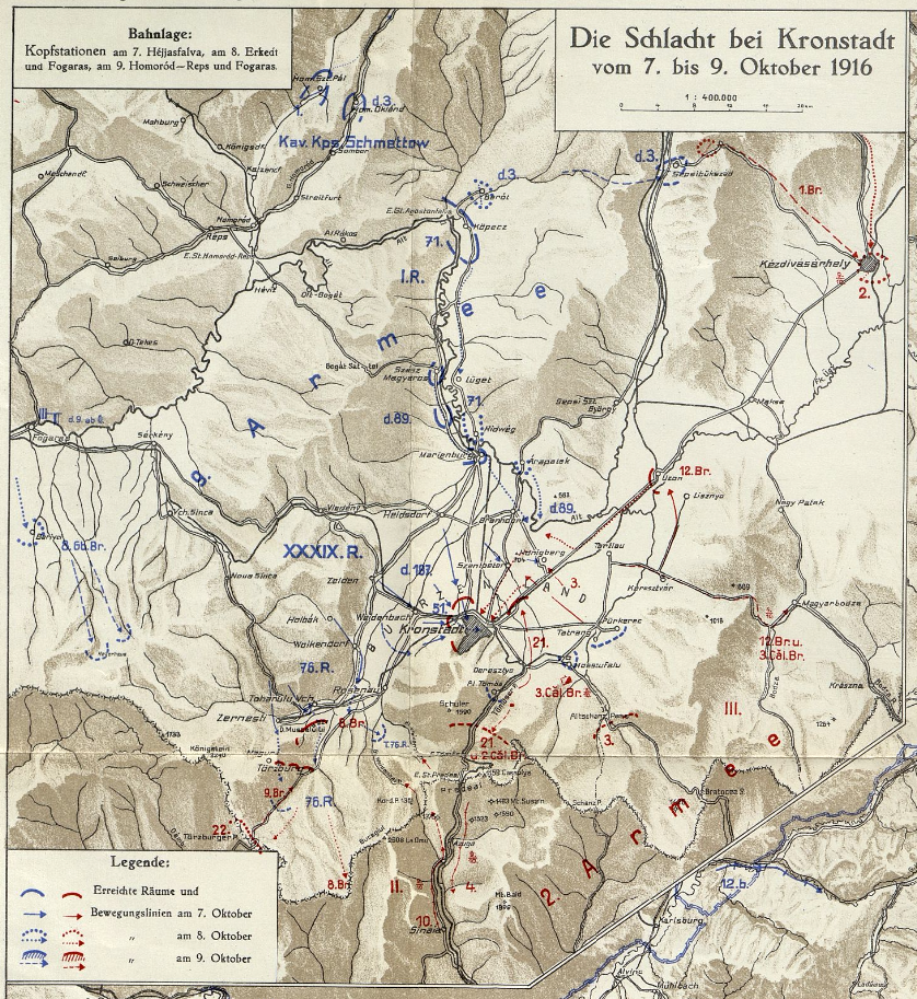 Romanian Front in WWI - The battle of Brașov, 1916